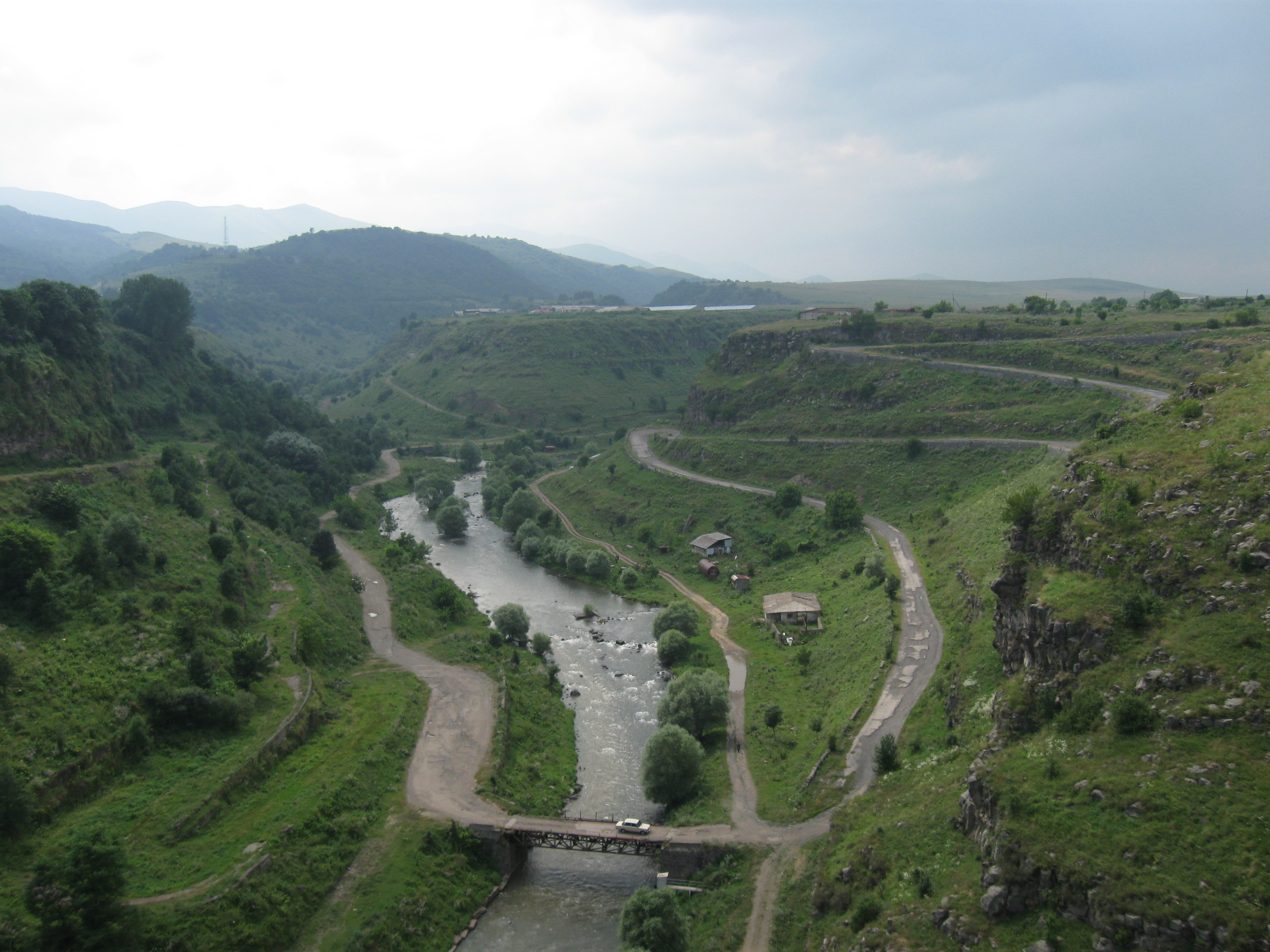 Canyon of Dzoraget river, Stepanavan, Lori Province.